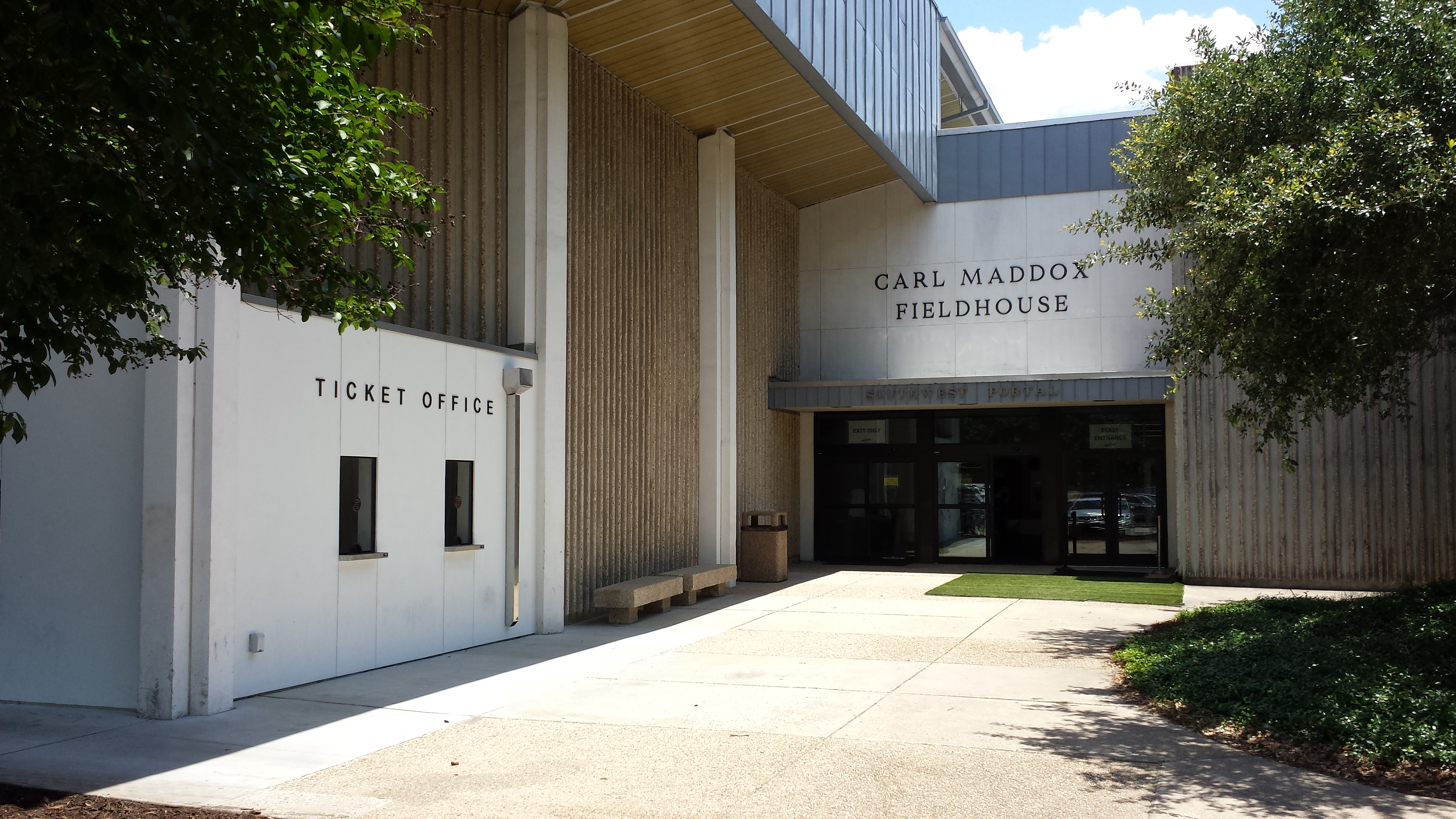 Carl Maddox Field House - Main Entrance.jpg